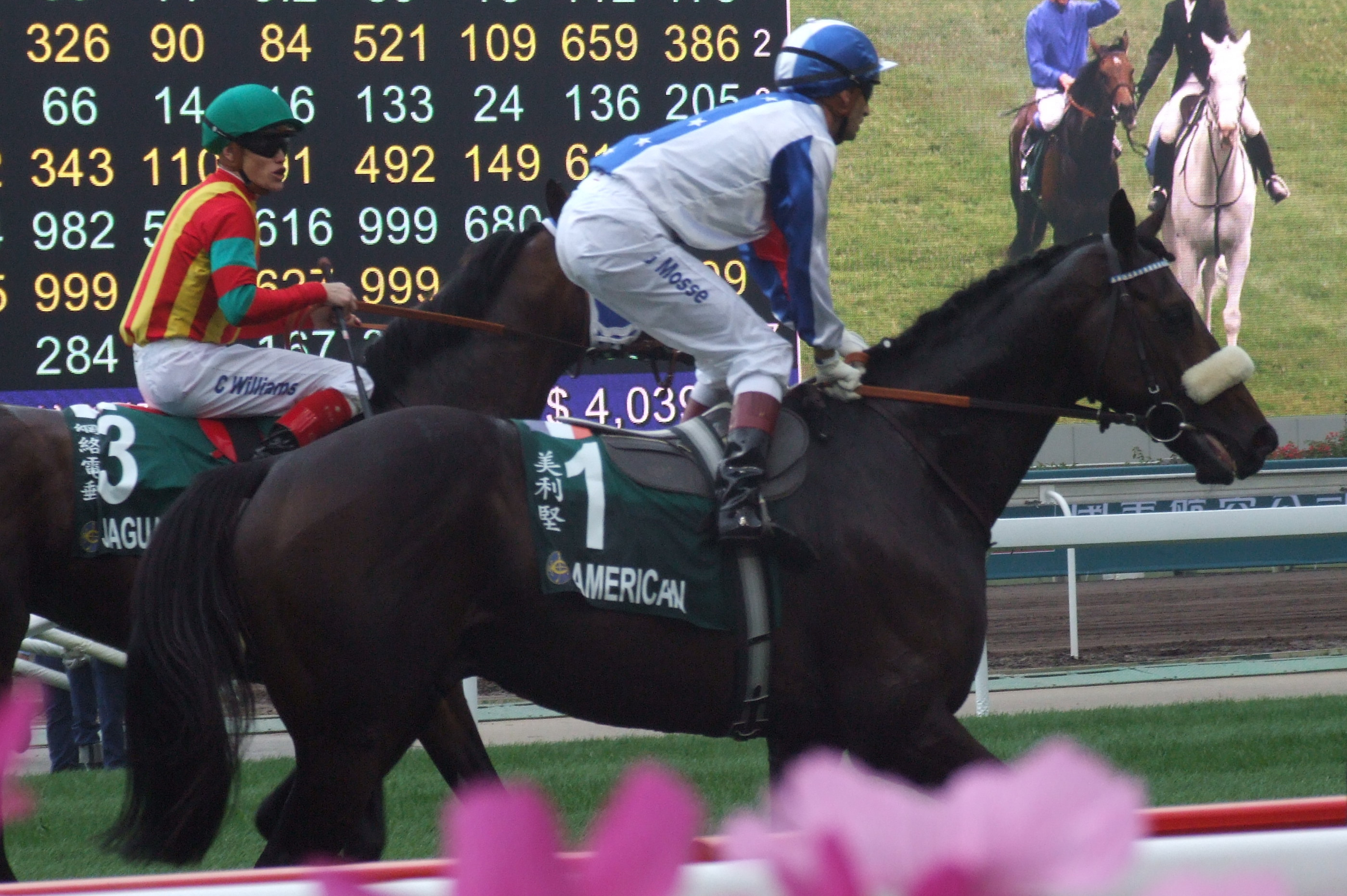 American (front), 2010 Melbourne Cup winner 中文（香港）: 美利堅